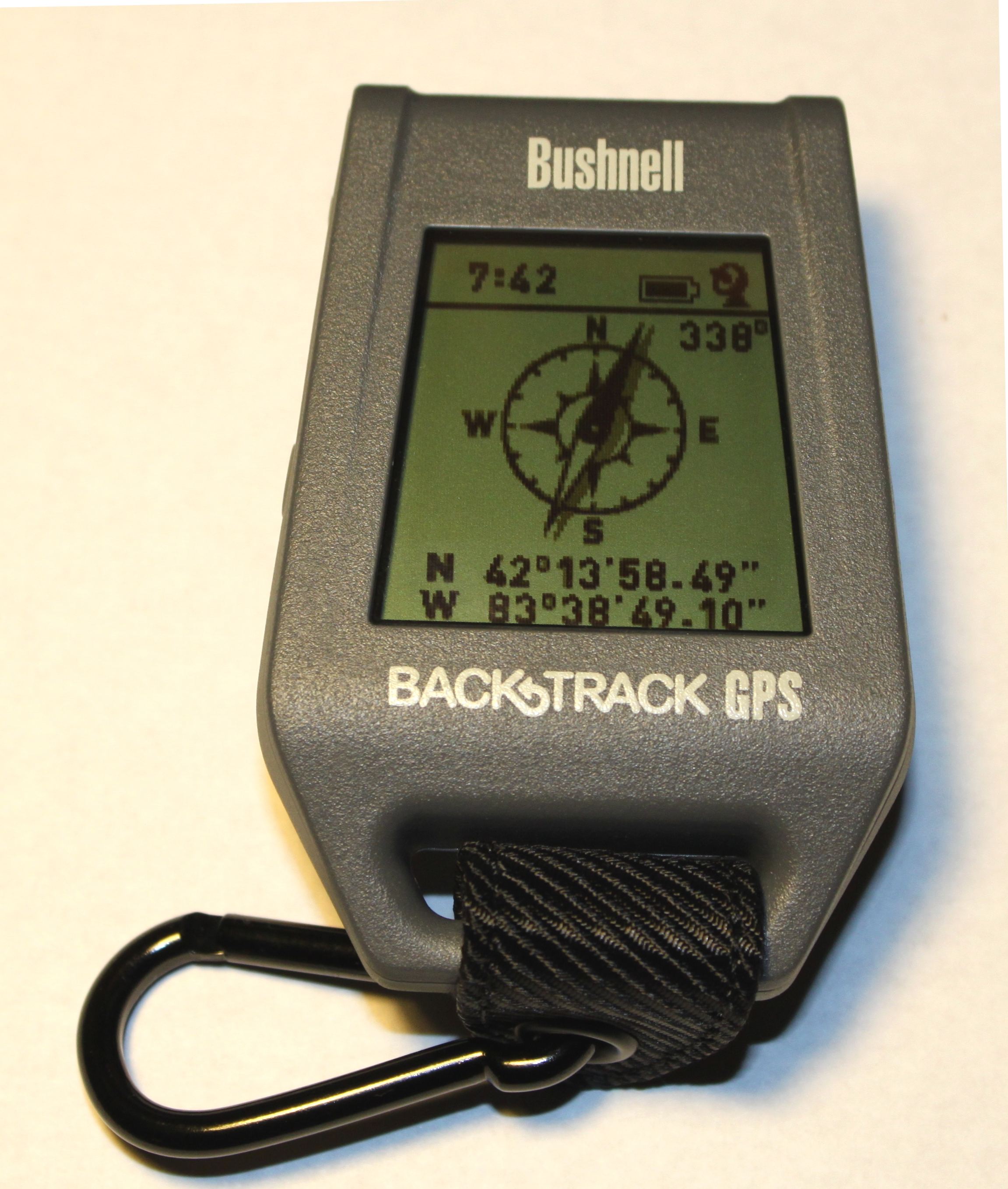 Bushnell Bactrack 5 Point GPS navigation device, model # 360200